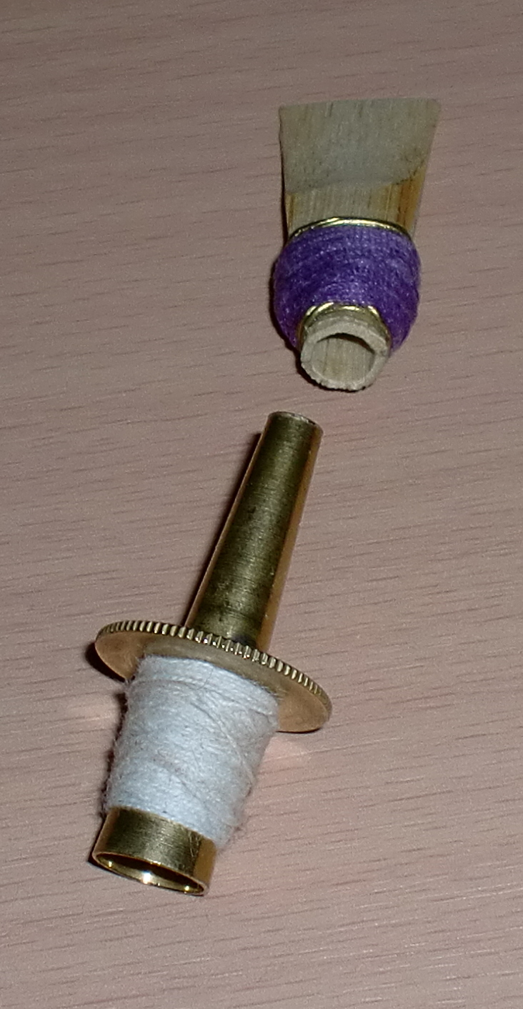 Dolçaina's reed and staple